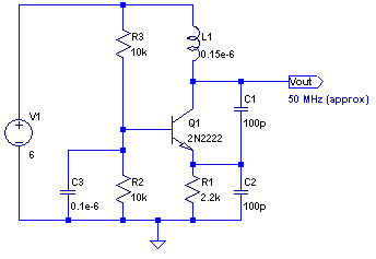 Colpitts oscillator schematic of working circuit Source of image Created by Madhu as a screenshot.